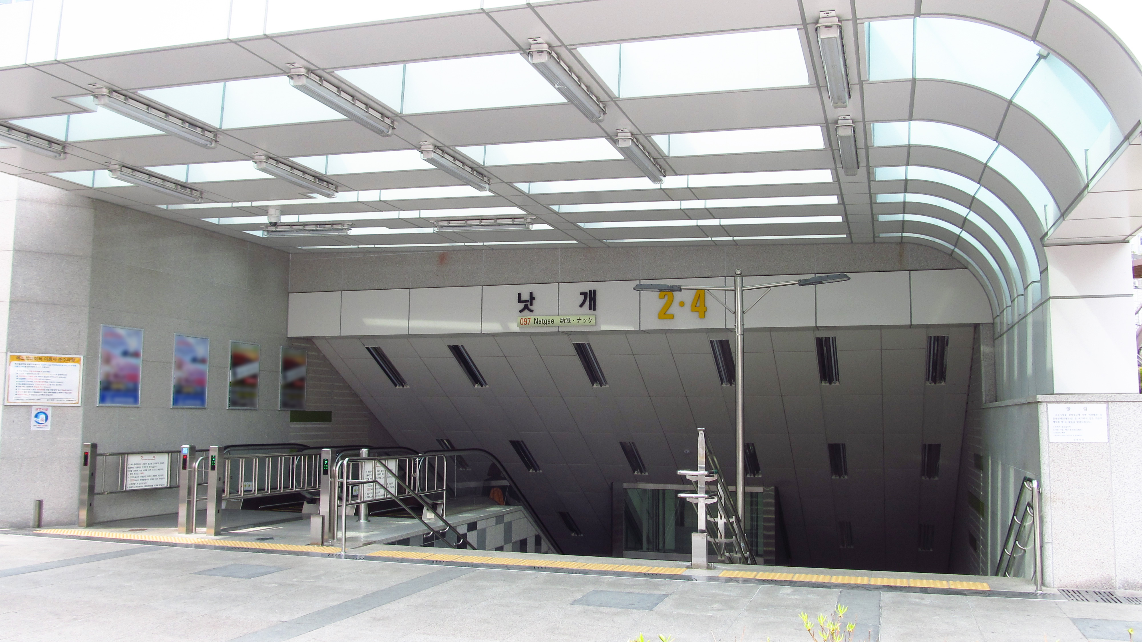 The no.2 and no.4 entrance to Natgae Station on the Busan Subway Line 1 in Saha-gu, Busan, Republic of Korea(South Korea)